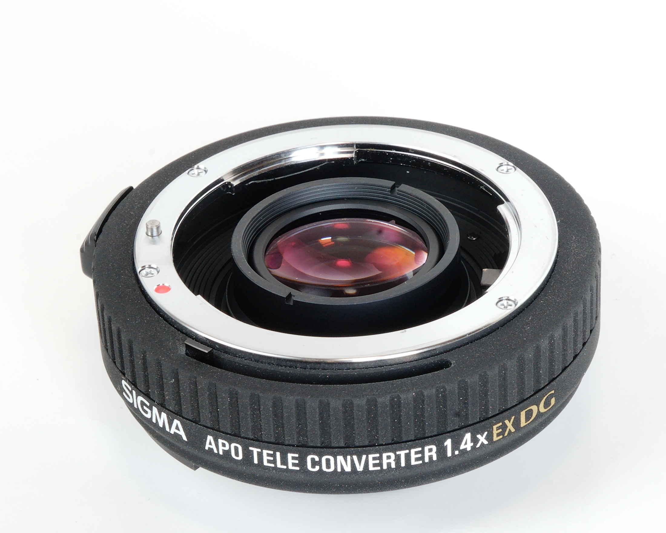 Sigma APO teleconverter 1.4x EX DG for Nikon F mount cameras.